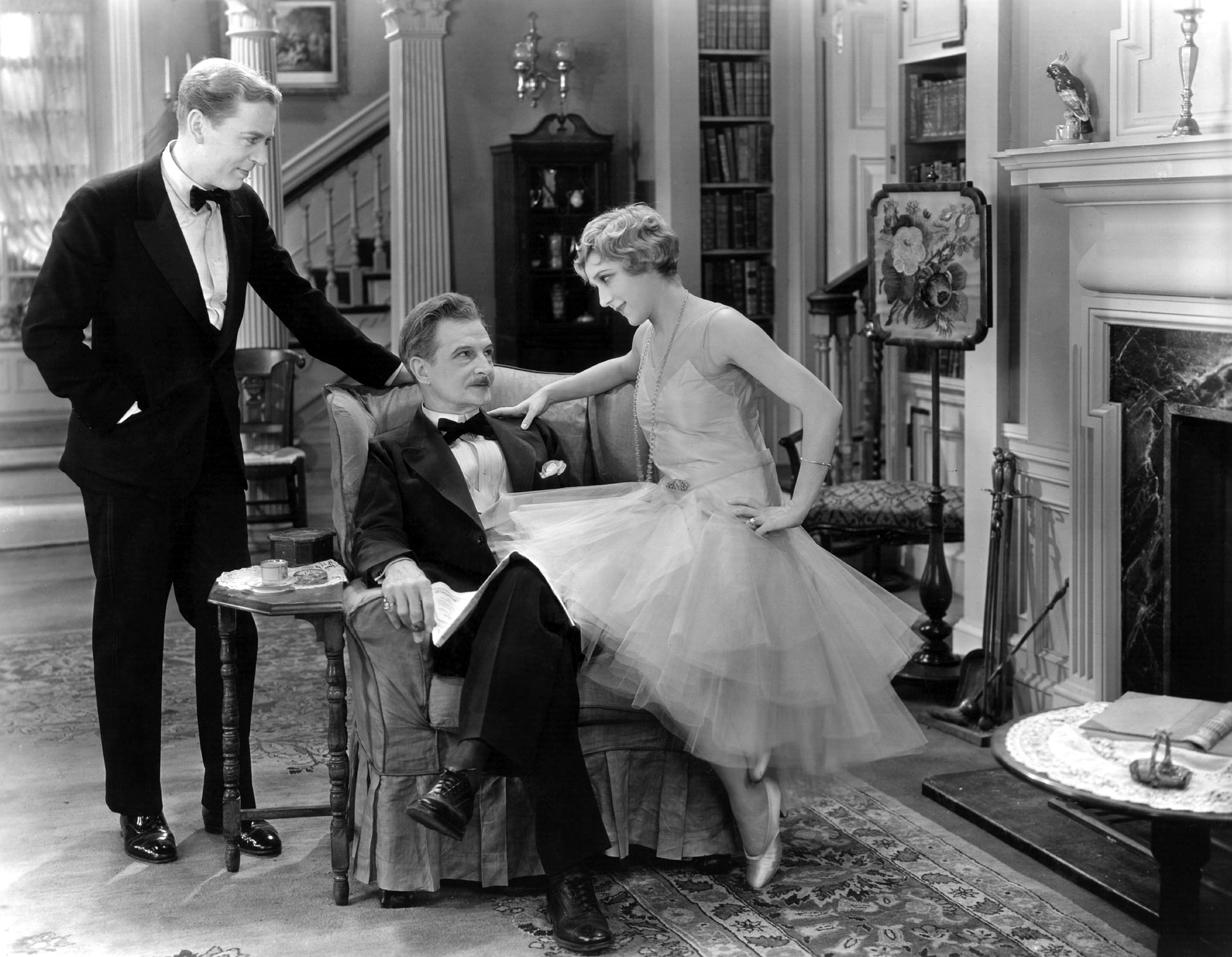 (Left to Right) Matt Moore, John St. Polis, and Mary Pickford in Coquette (1929), a film directed by Sam Taylor